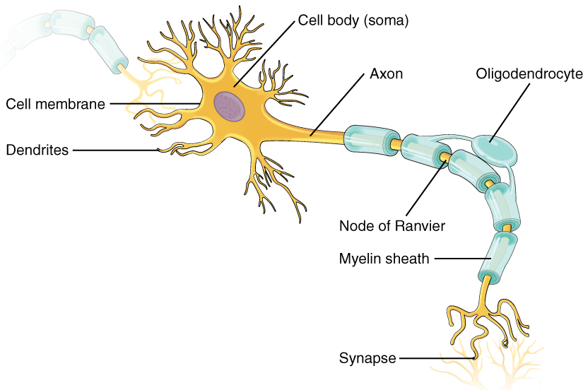 Version 8.25 from the Textbook OpenStax Anatomy and Physiology Published May 18, 2016